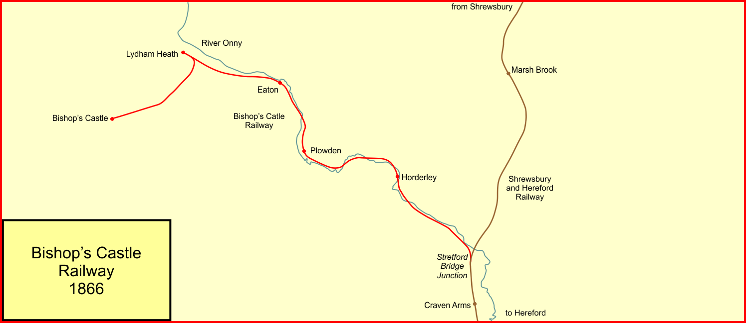 System map of Bishop's Castle Railway, Shropshire, England, in 1866